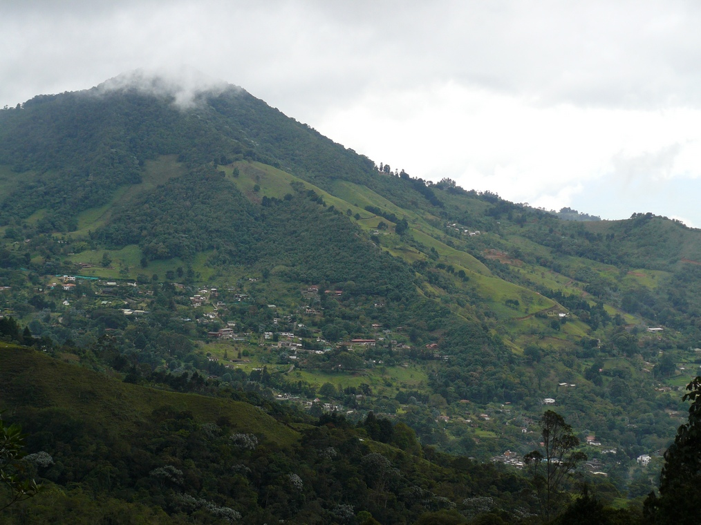 View of Dapa, Valle del Cauca, Colombia